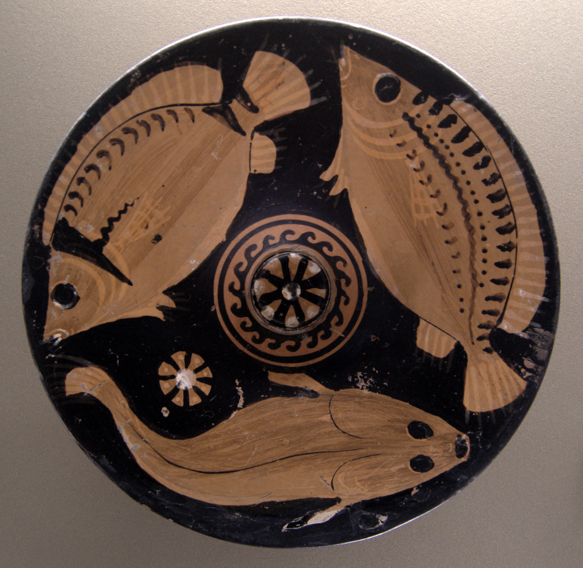 Apulian red-figure dish with fish, ca. 350–325 BC.